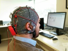 A NeuroCatch Platform™ by Health Tech Connex